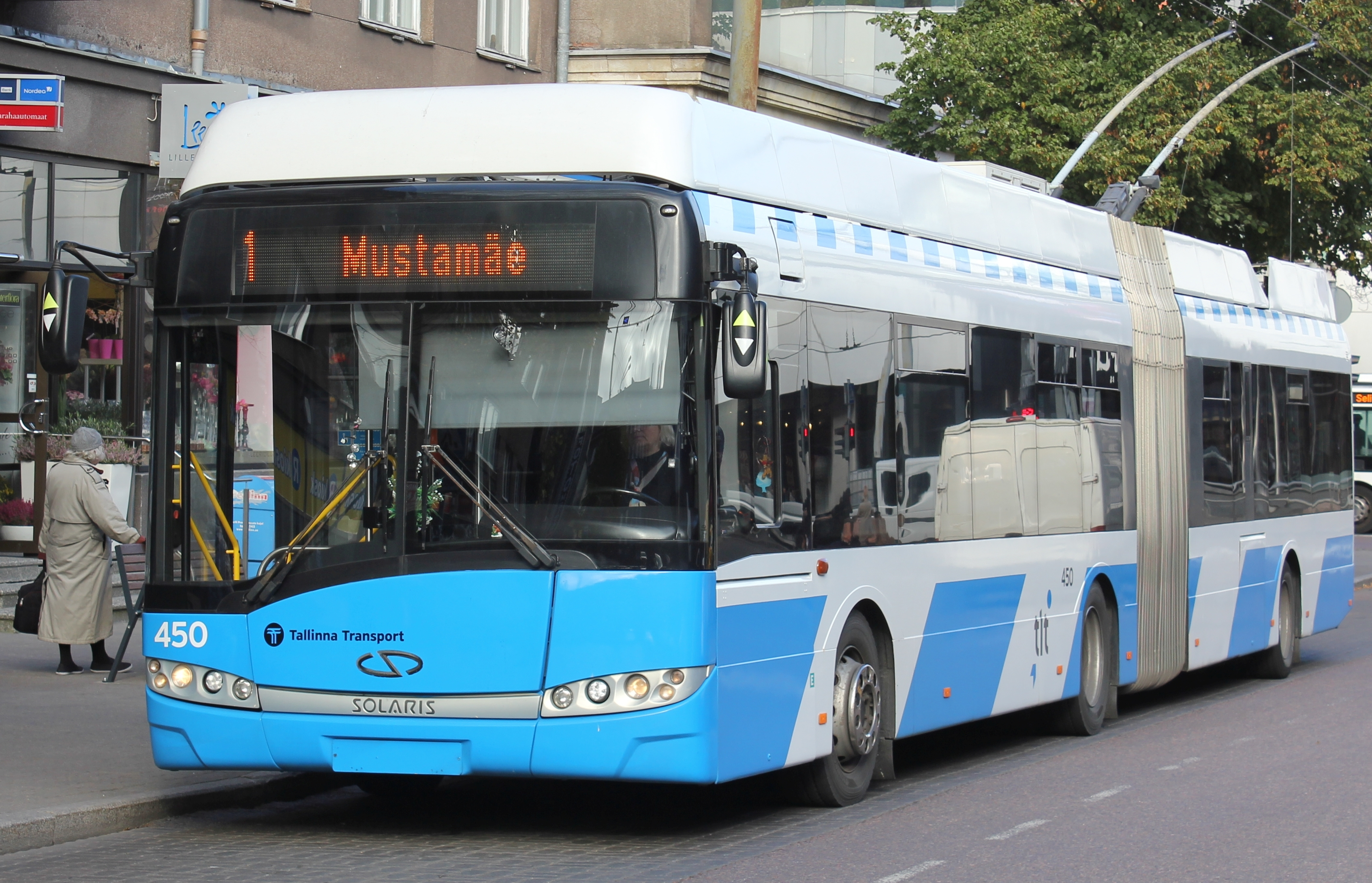 Tallinn - Solaris Trollino 18 trolleybus #450 on line No. 1